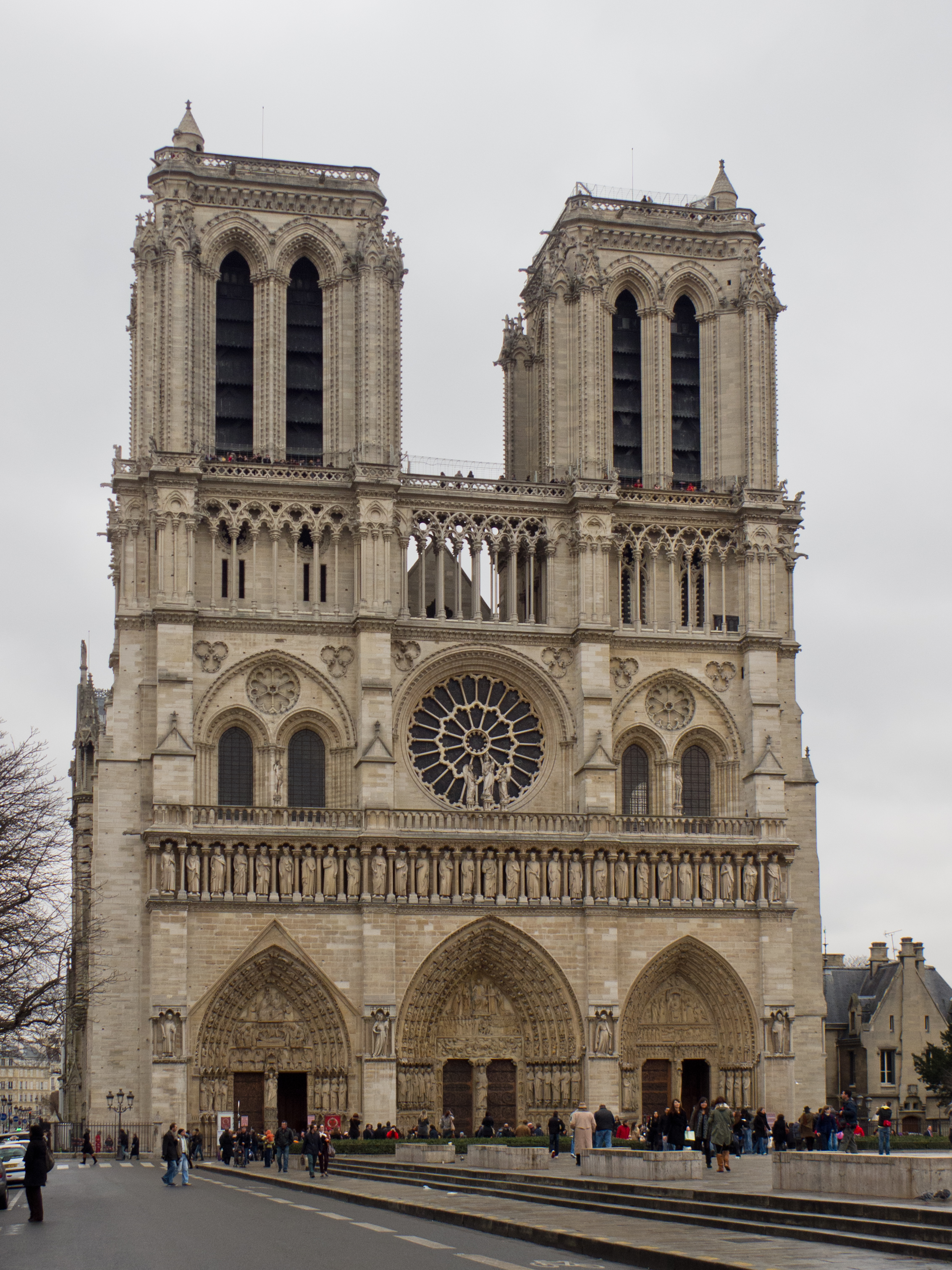 West facade of the Cathedral of Notre-Dame of Paris, France.